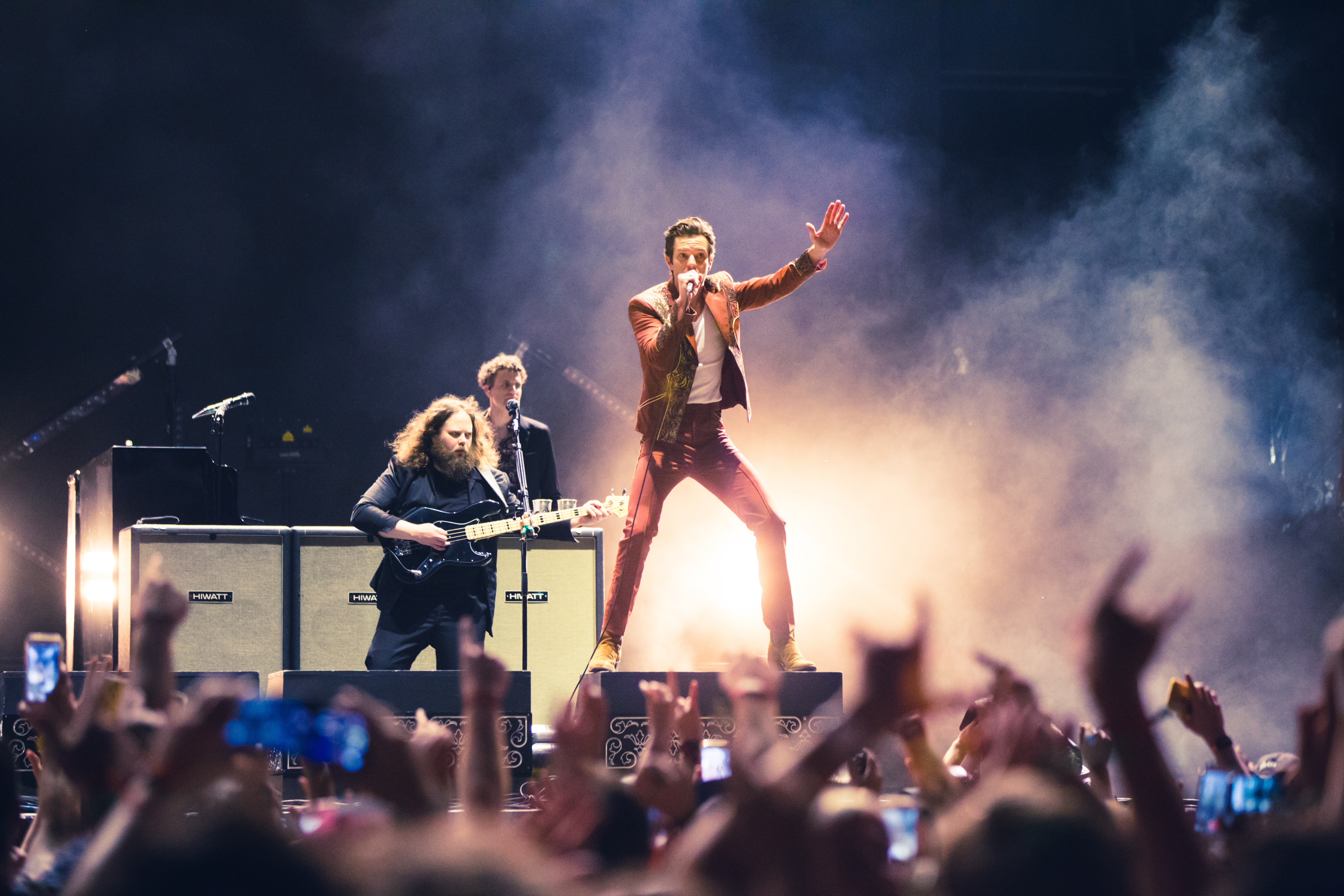 The Killers performs at the 2018 Bonnaroo Music & Arts Festival